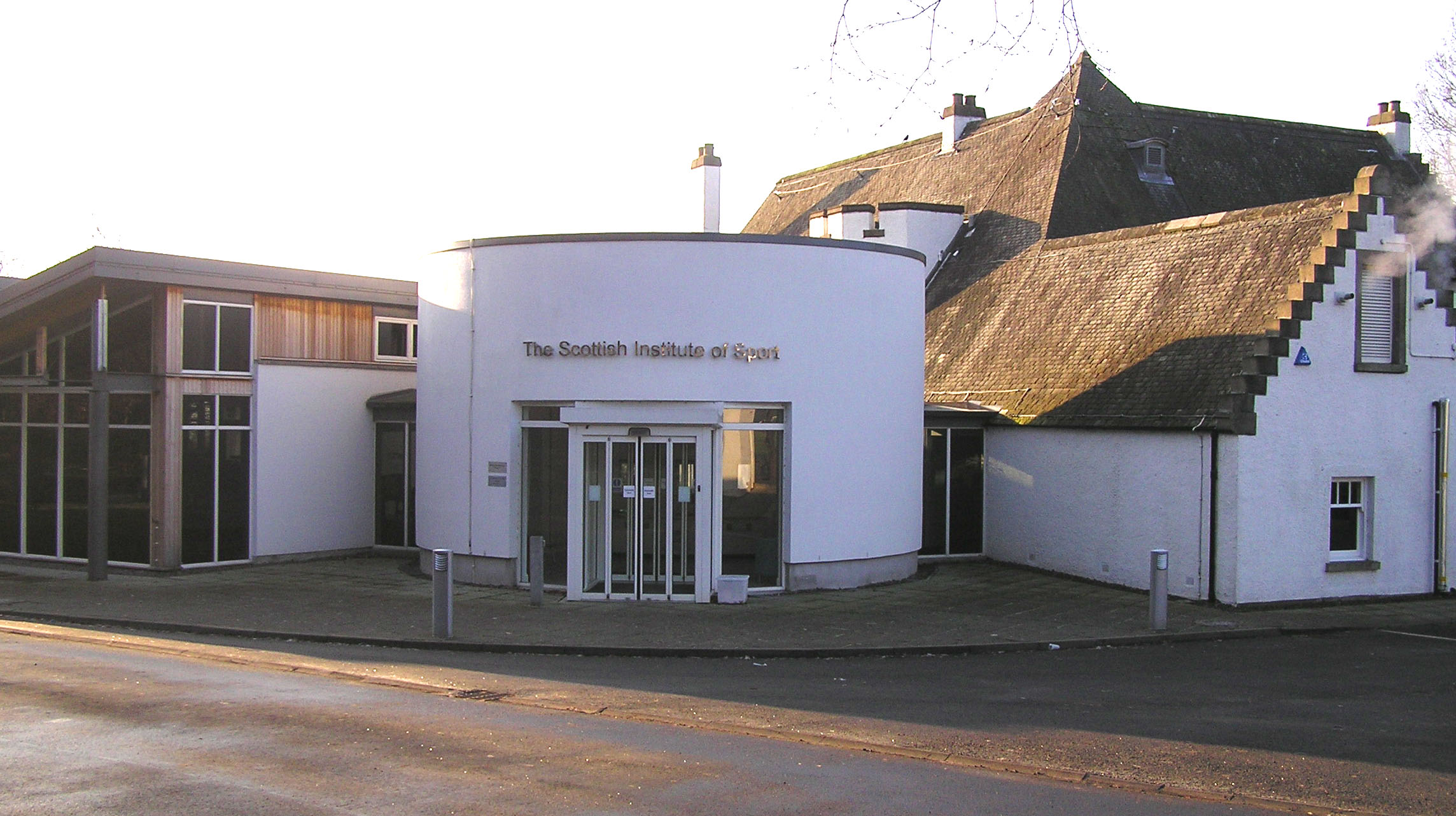 The headquarters of the Scottish Institute of Sport on the campus of the University of Stirling in Stirling, Scotland. Taken my Finlay McWalter on the 8th of January 2006.